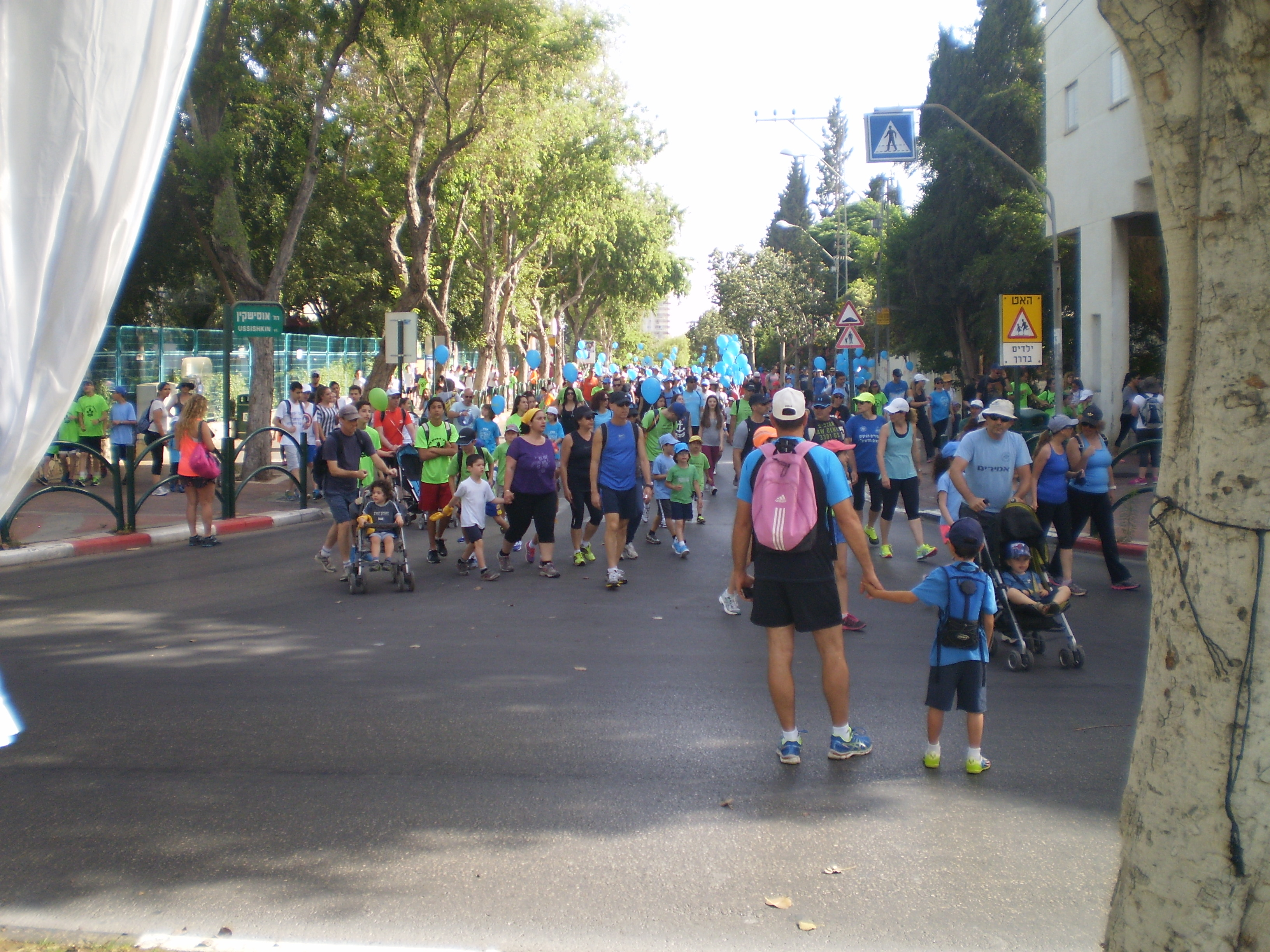 Tsaadat Habanim 2014